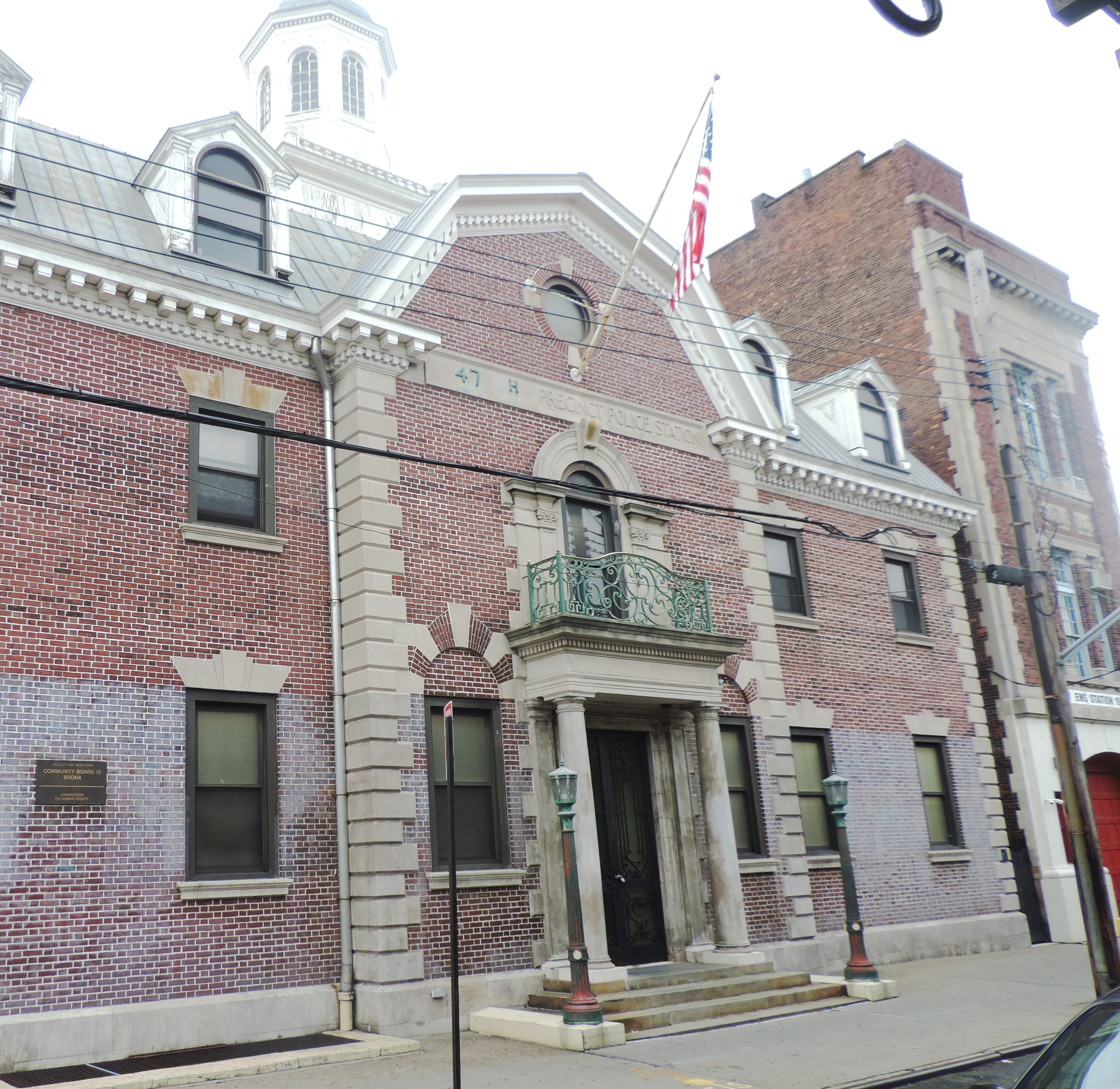 Looking north from White Plains Road at former precinct house, on a cloudy afternoon.